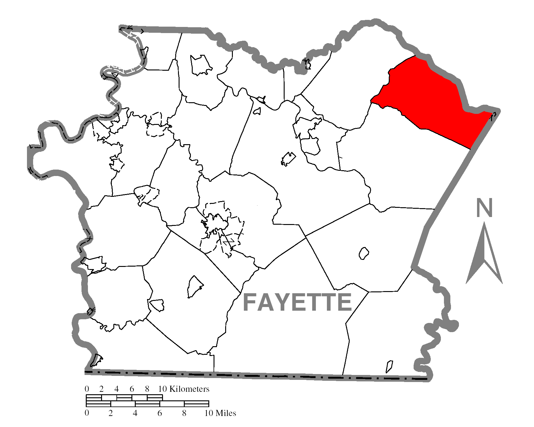 Map of Fayette County higlighting Saltlick Township.